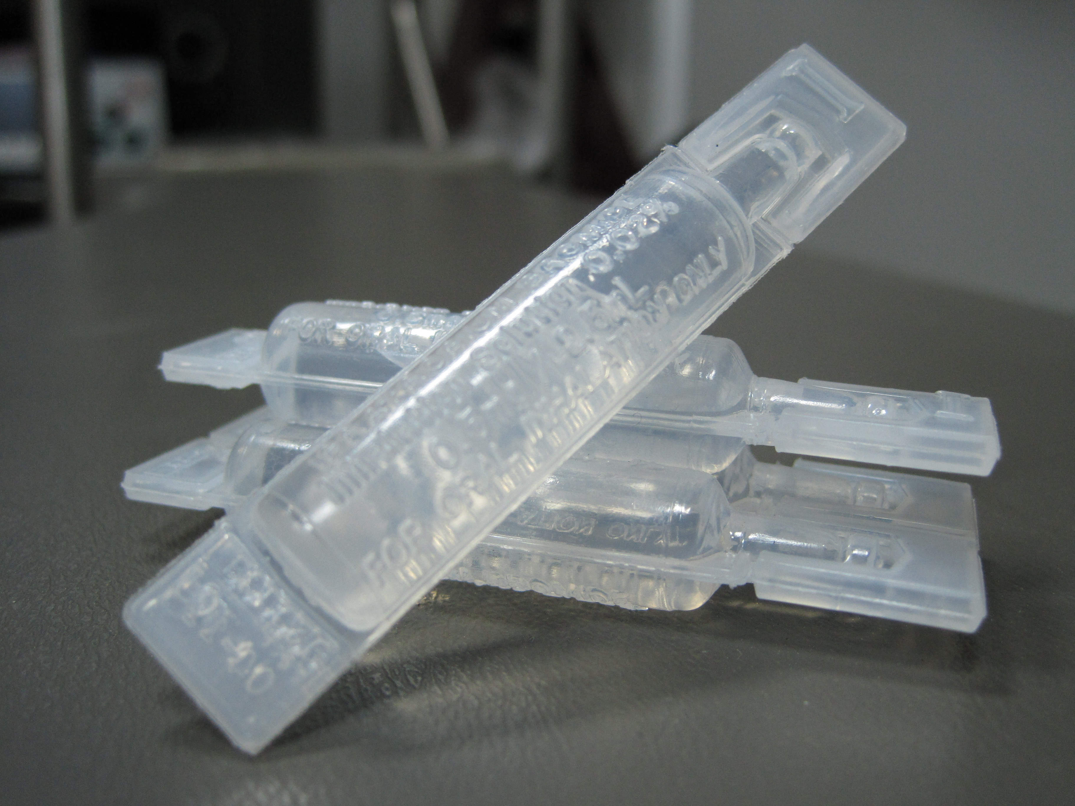 Ipratropium Bromide preparation, pre-filled 'bullet' for inhalation by nebulizer.